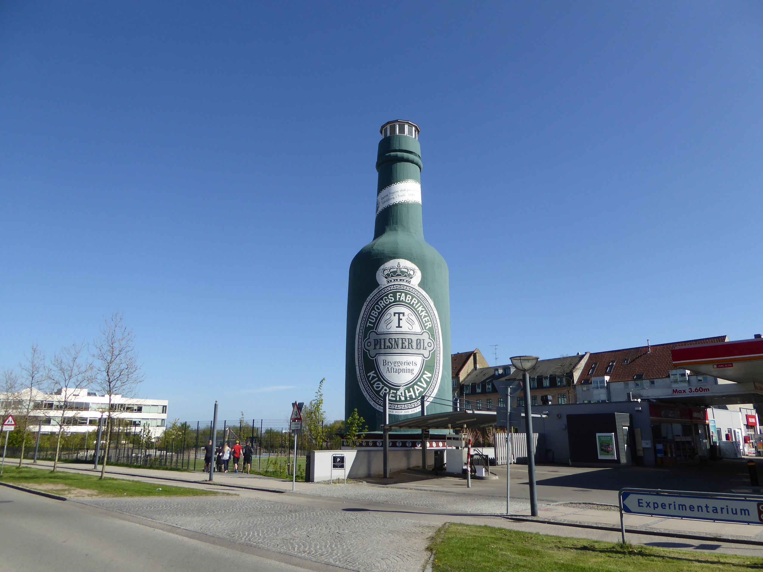 The old tower Tuborgflasken (the Tuborg Bottle) in Hellerup in Copenhagen. It was originally build as an observation tower by the brewery Tuborg for Nordic Exhibition at Tivoli in 1888. Afterwards it was moved to the brewery area in Hellerup. It has been closed for the public since a long time ago.